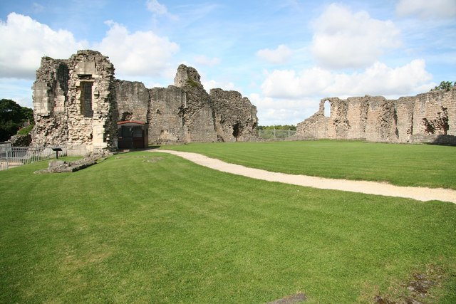 Conisbrough Castle inner ward Ruins of the Gatehouse and the Earl's chamber at Conisbrough Castle